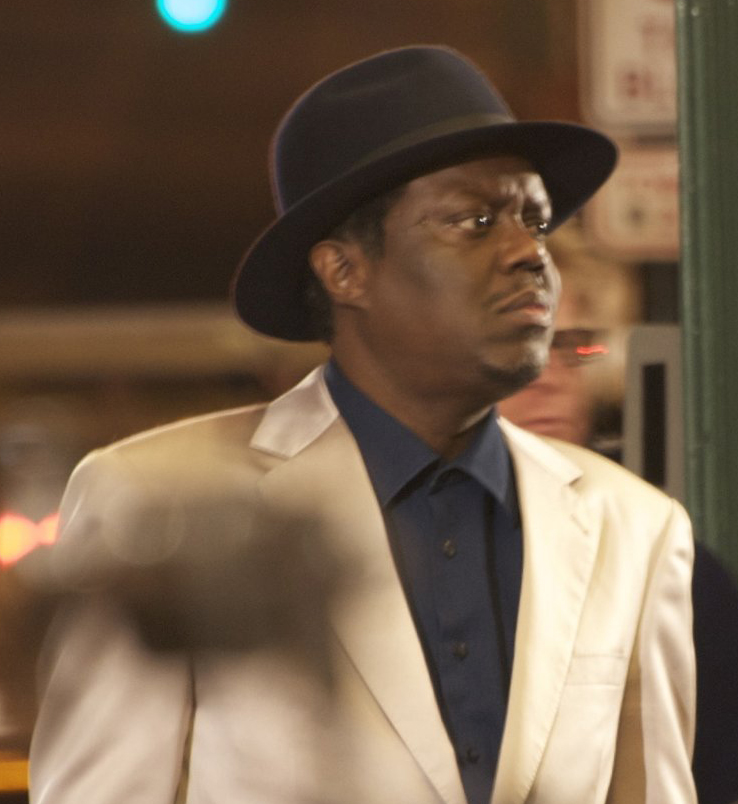 Bernie Mac on the set of Soul Men in 2008 in Memphis, Tennessee.